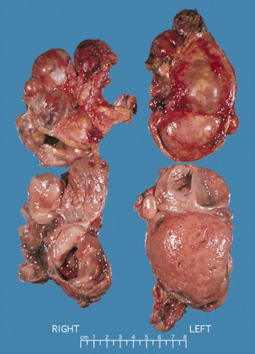 ADRENAL GLAND: BILATERAL PHEOCHROMOCYTOMA Cross section of bilateral pheochromocytomas from a 30-year-old man with MEN syndrome type IIa. The right adrenal tumor weighed 168 g and the left 220 g. Note the distinct multinodular, multicentric pattern of growth on both sides.